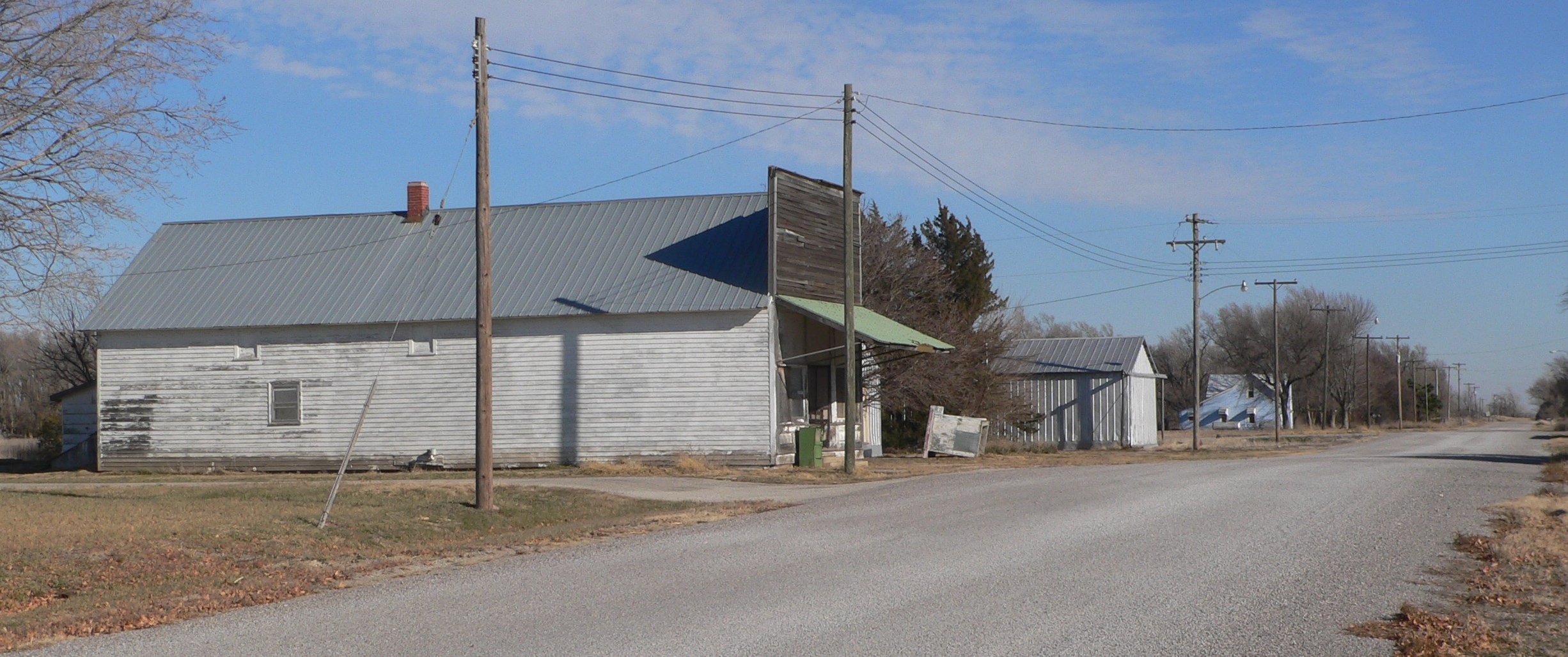 Downtown Nora, Nebraska. Camera is facing east-northeast.